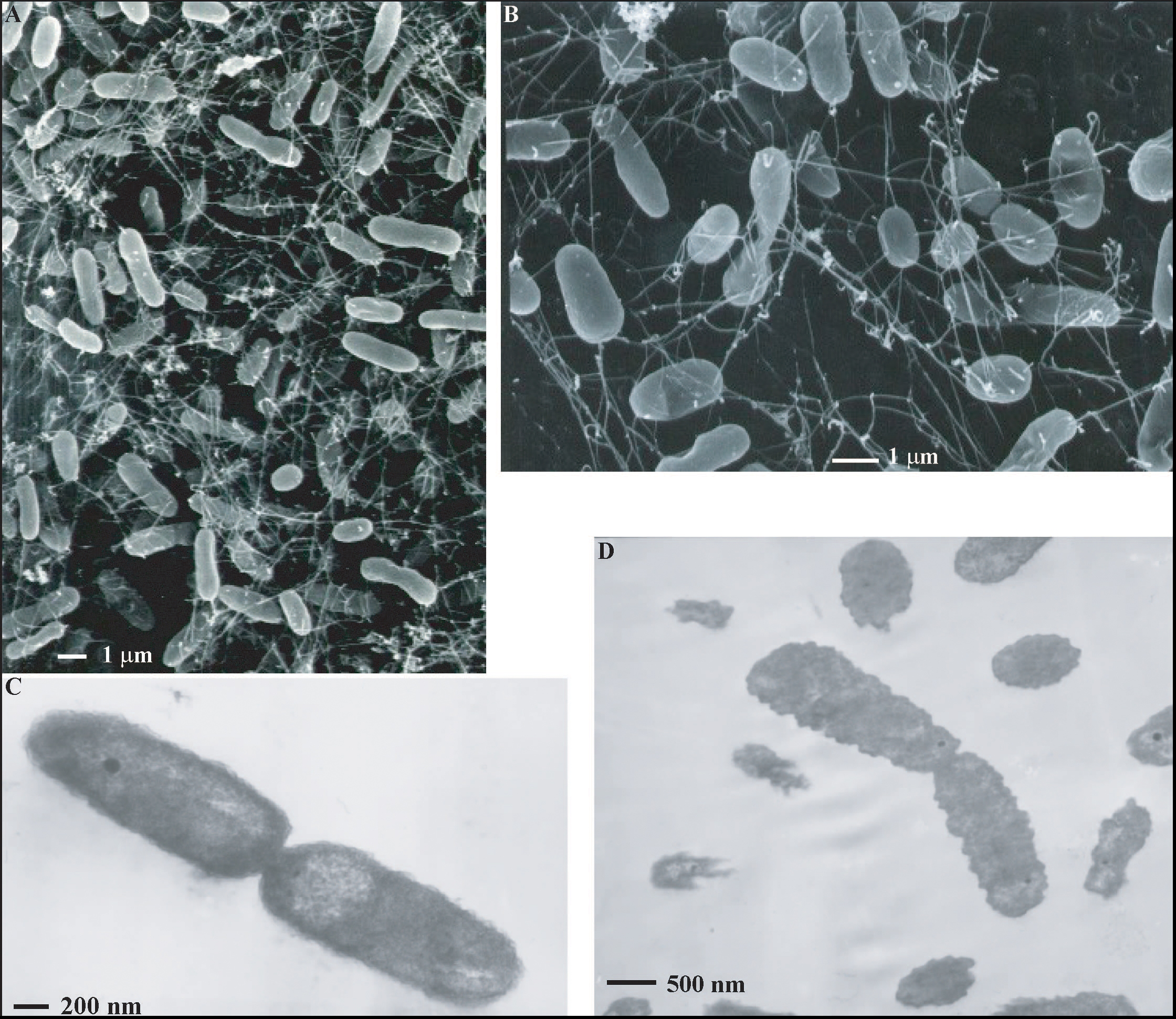 Thermophile bacteria isolated from deep-sea vent fluids. This organism eats sulfur and hydrogen and fixes its own carbon from carbon dioxide. (A,B) scanning electron micrographs, and (C,D) transmission electron micrographs in thin sections.